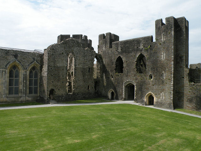 Inner West Gate, Caerphilly Castle